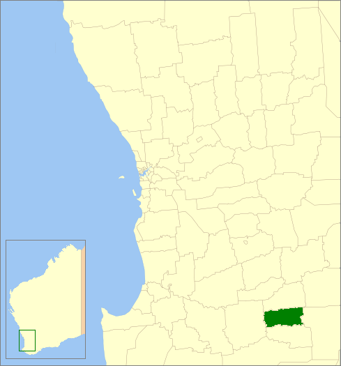 Description=Location of the Local Government Area in Western Australia